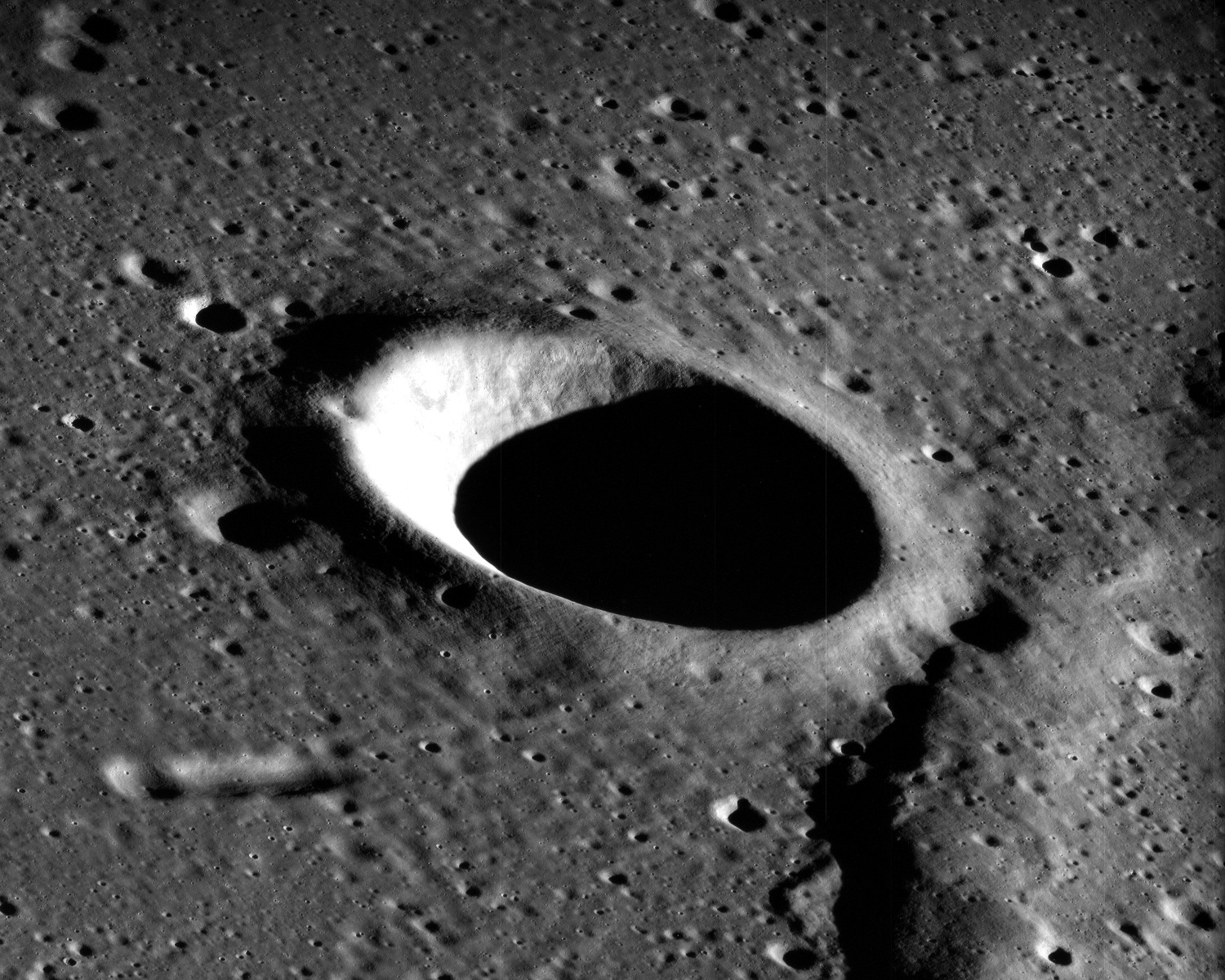 Oblique view of Very crater, within Mare Serenitatis, facing north, on the moon. Taken by Apollo 17 panoramic camera.